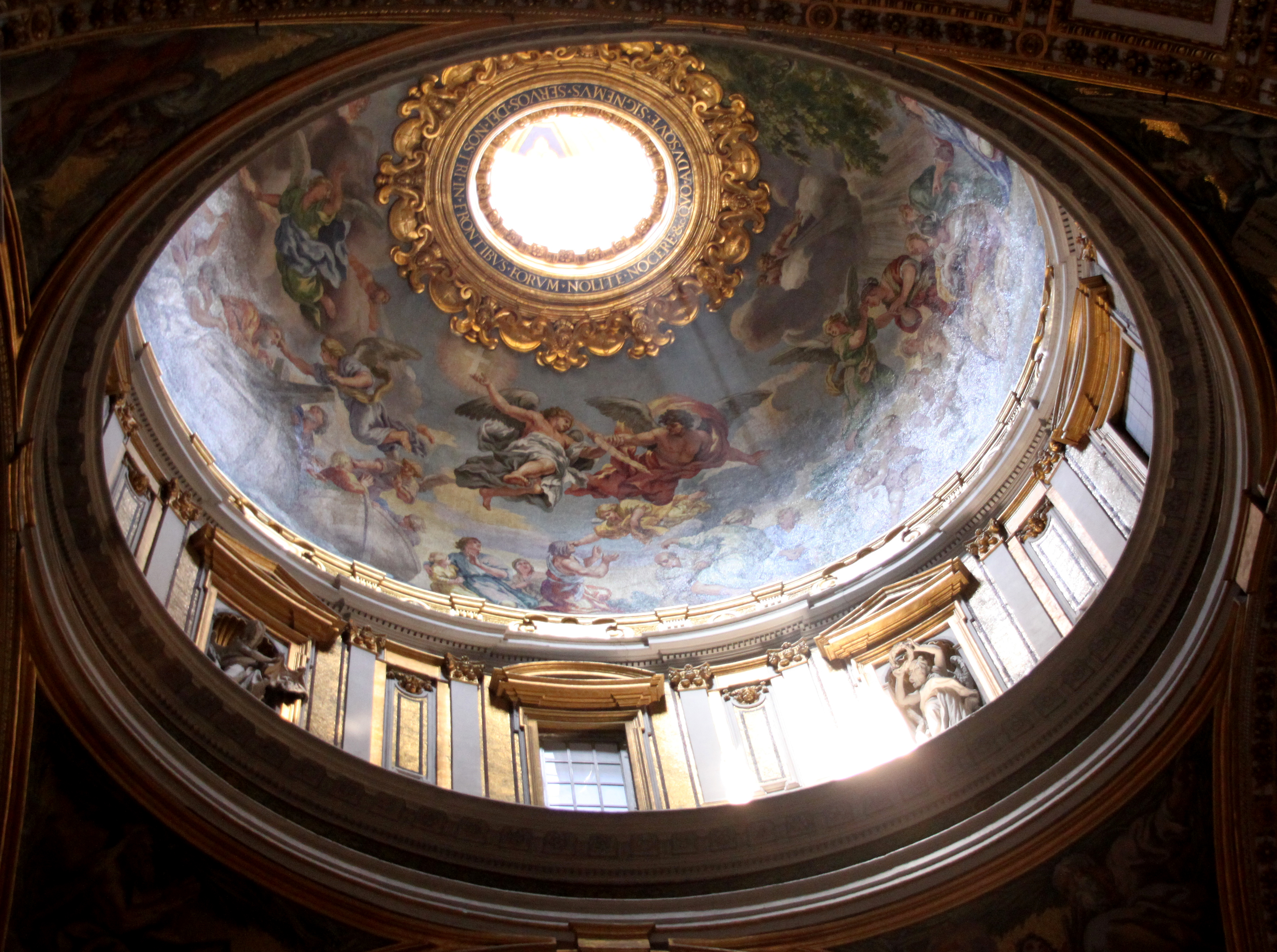 One of the small domes of the St. Peter's Basilica in Rome (Italy).